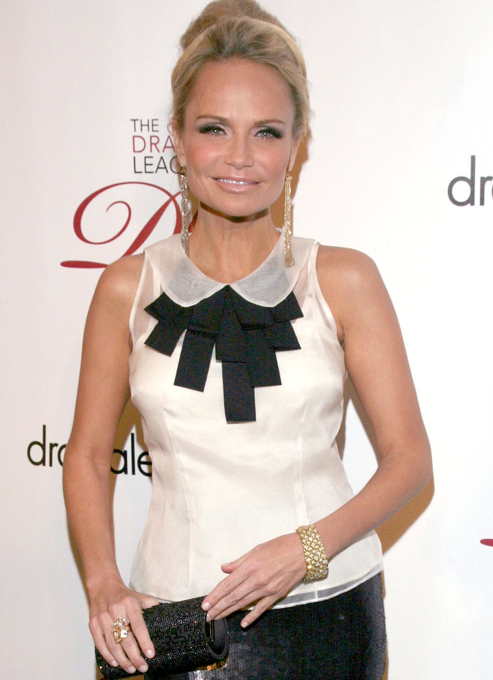 Kristin Chenoweth at the 2012 Drama League Benefit Gala.